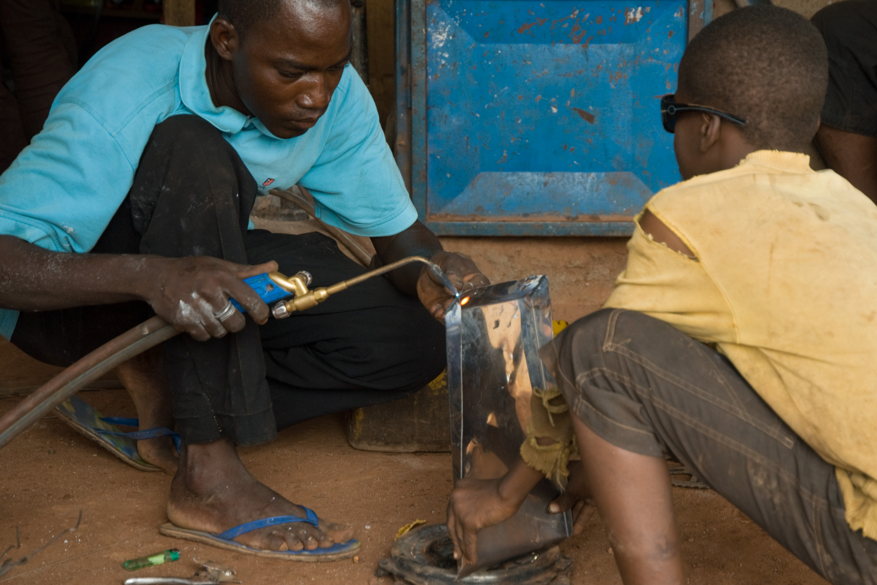 Acetylene welder at work (Bobo-Dioulasso, Burkina Faso June 2015)